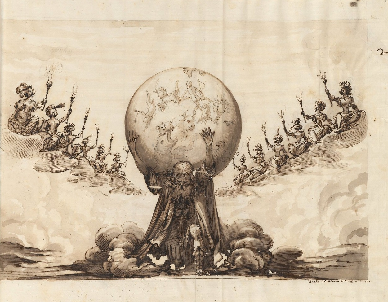 Illustration from Andrómeda y Perseo, ca. 1653, by Pedro Calderón de la Barca (1600-1681). MS Typ 258, Houghton Library, Harvard University